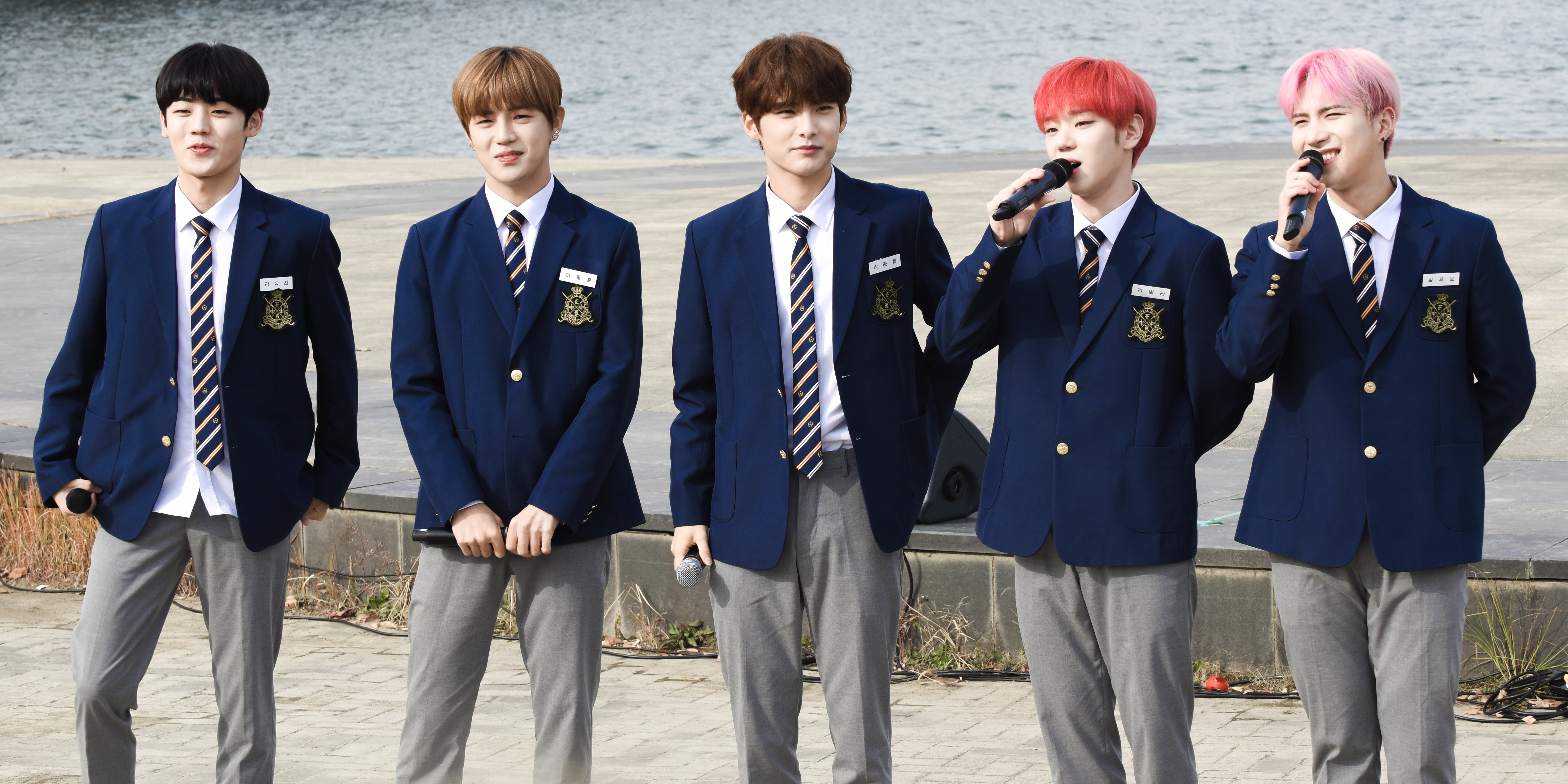 A.C.E busking in Banpo on November 23, 2019.